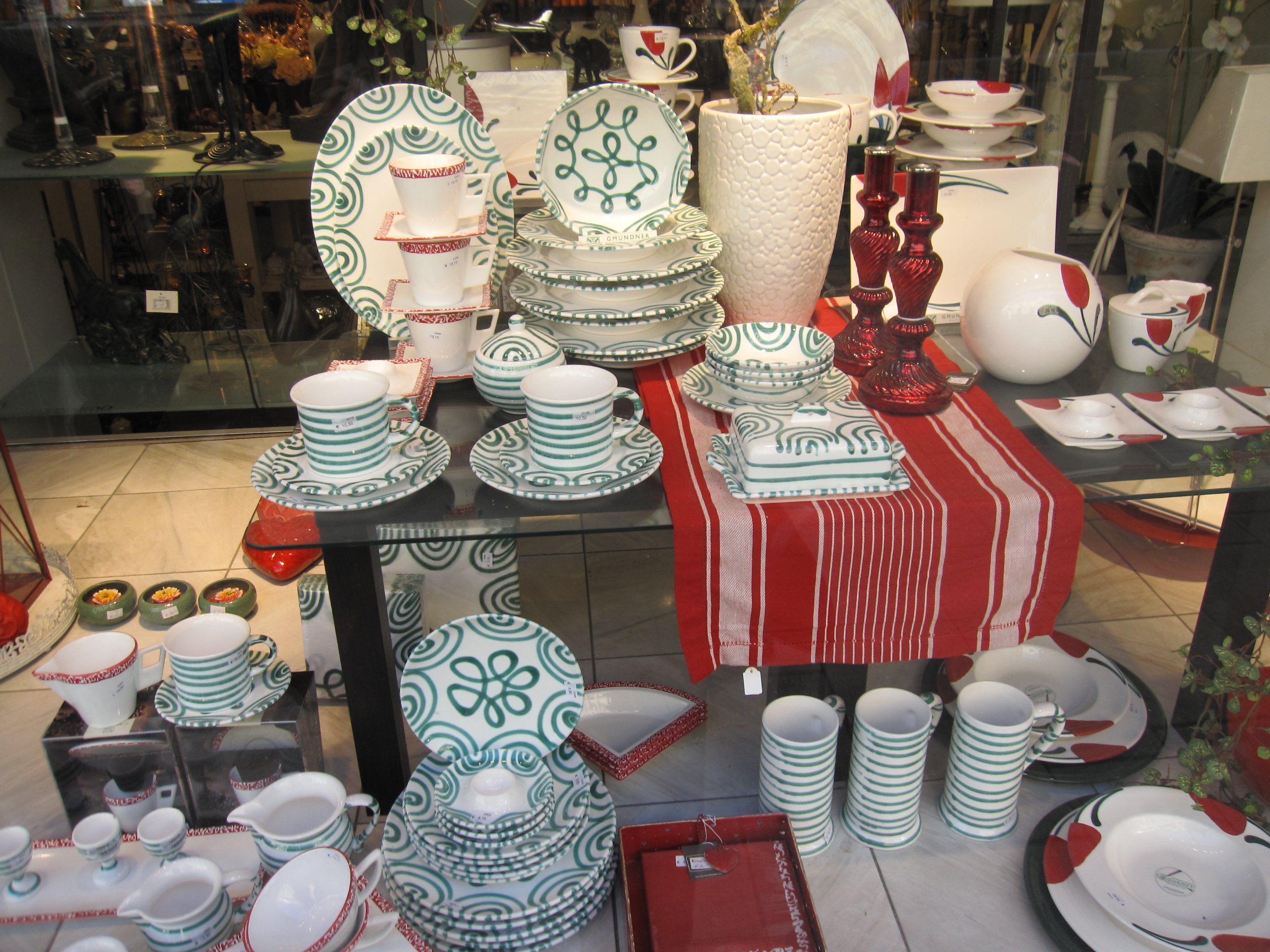 Gmundner Keramik at a shop in Mariahilf, Vienna.